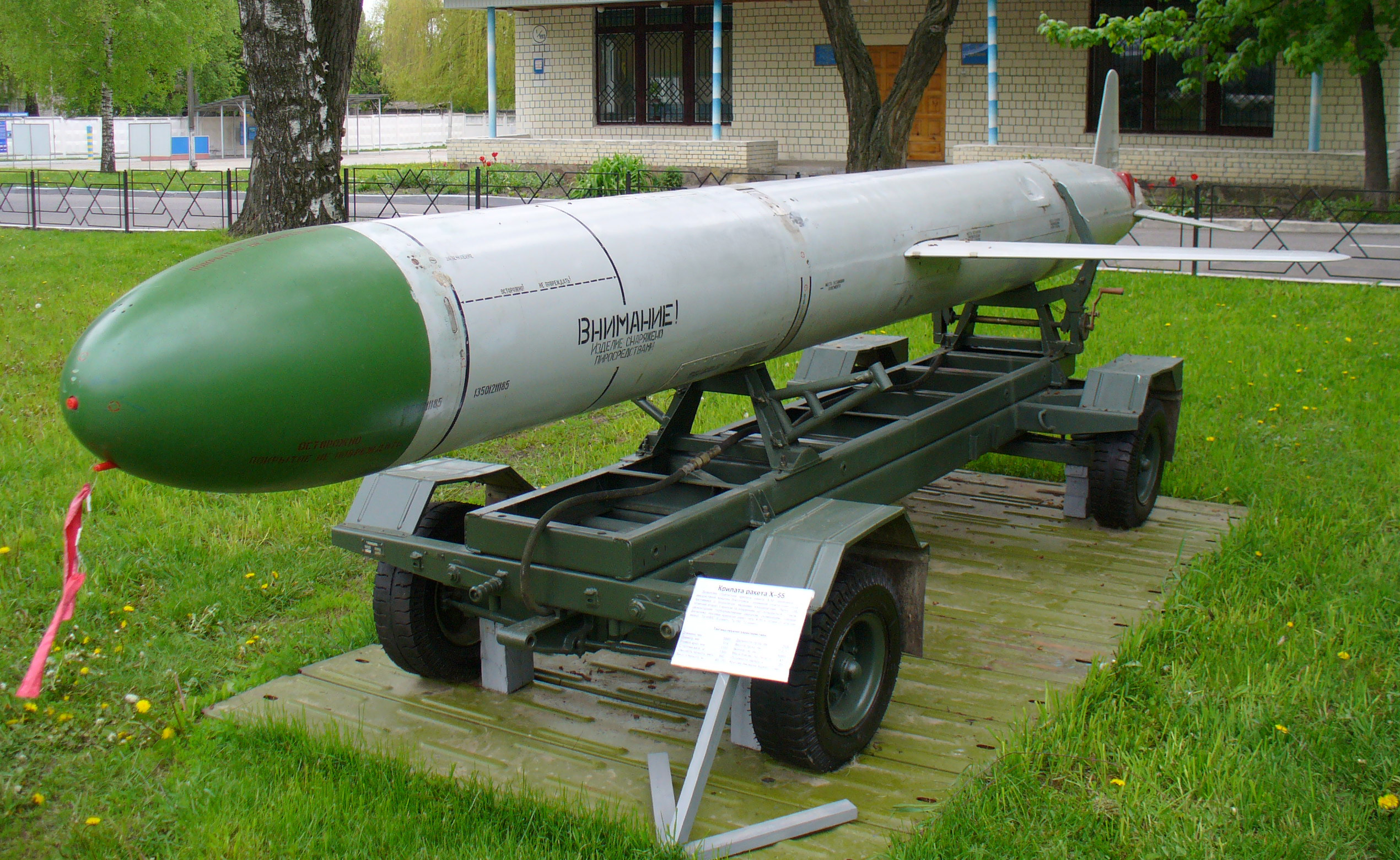 Raduga Kh-55 (NATO code:AS-15 "Kent") in the Ukrainian Air Force museum